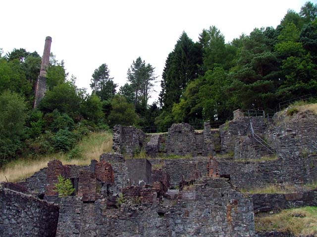 Hafna Mine and Mill. The Hafna mill complex was originally constructed in 1879, and ceased working around 1915